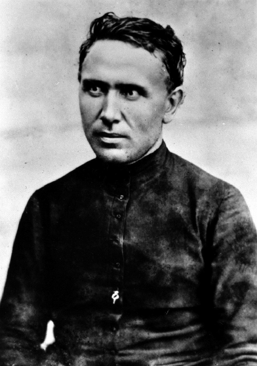 Father Damien in 1878. Photograph taken by Henry L. Chase. Previously miscredited to Menzies Dickson and incorrectly dated as 1873, the year he went to Molokai.